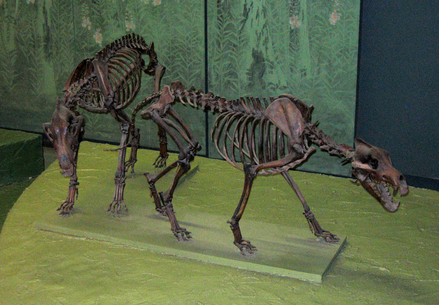 Dire Wolf fossils at the National Museum of Natural History, Washington, D.C.